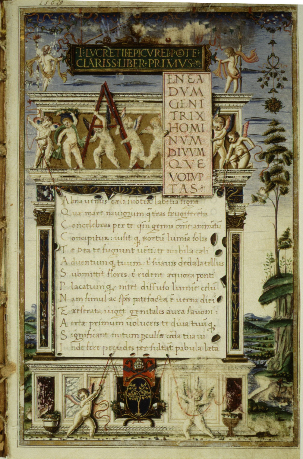 Lucretius, De rerum natura // This elegant manuscript of Lucretius's philosophical poem, copied by an Augustinian friar for a pope, is an example of the interest in ancient accounts of nature taken by the Renaissance curia. The work, written in the first century B.C., contains one of the principal accounts of ancient atomism. The poem was little known in the Middle Ages and its author dismissed as an atheist and lunatic, but after the discovery of an early manuscript in 1417 by the humanist and papal secretary Poggio Bracciolini, it circulated widely in Italy. This is one of numerous copies made at that time. The coat of arms of Sixtus IV appears on this page. Vat. lat. 1569 fol. 1 recto medbio04 NAN.13